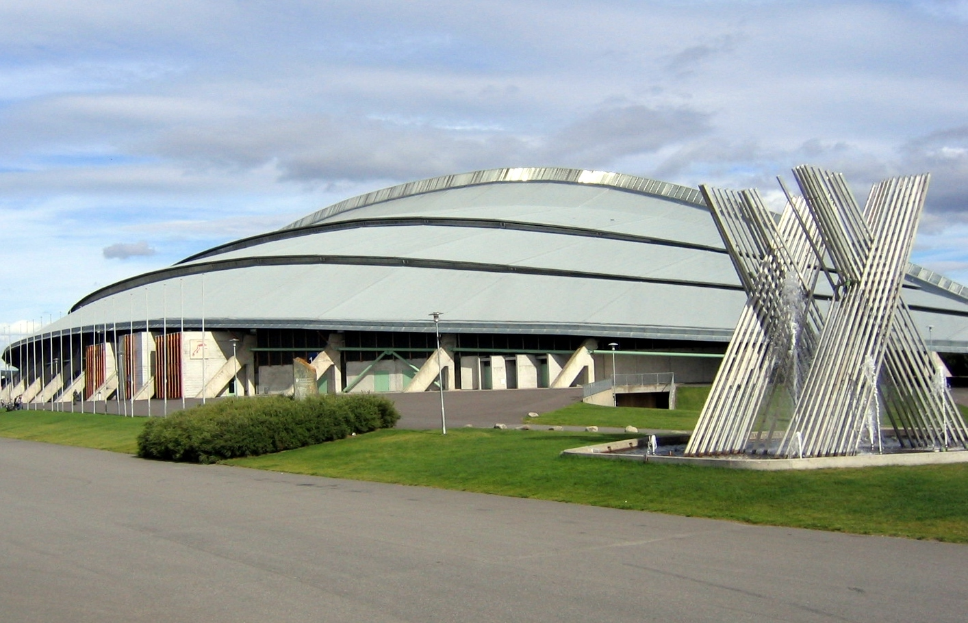 Vikingskipet Olympic Arena, Hamar